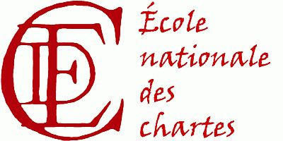 Logo of the Ecole nationale des chartes